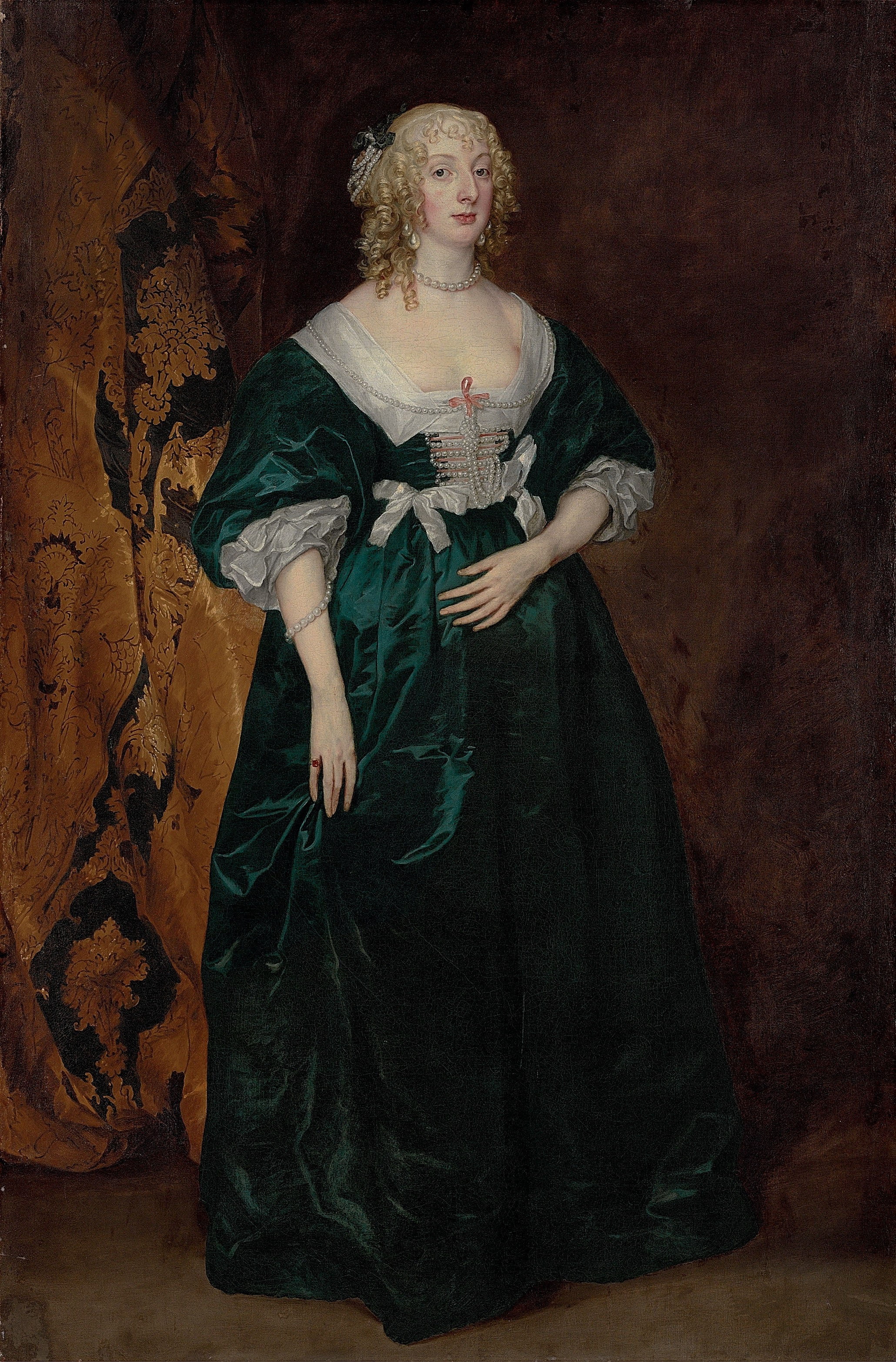 in a green dress with white silk bows and pearls, and gold-embroidered curtain beyond